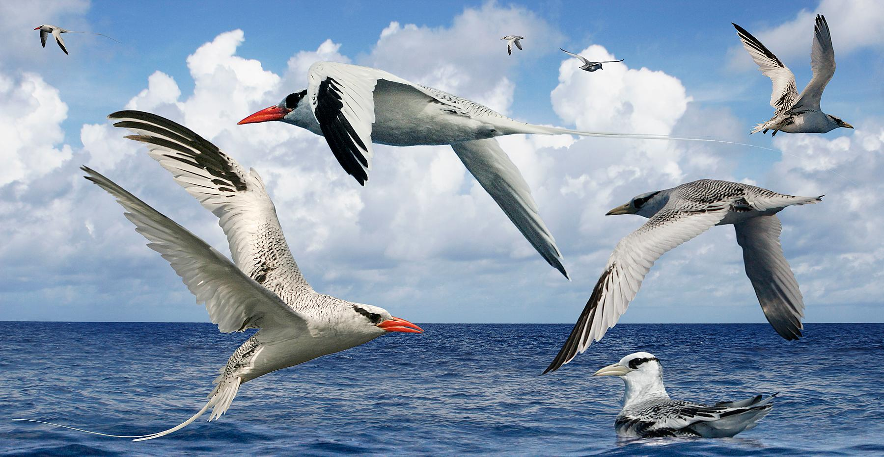 Red-billed Tropicbird From The Crossley ID Guide Eastern Birds